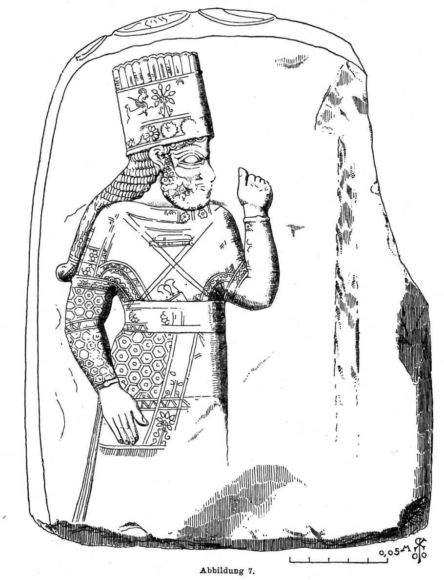 Kudurru of Marduk-nadin-ahhe from Amran (front)